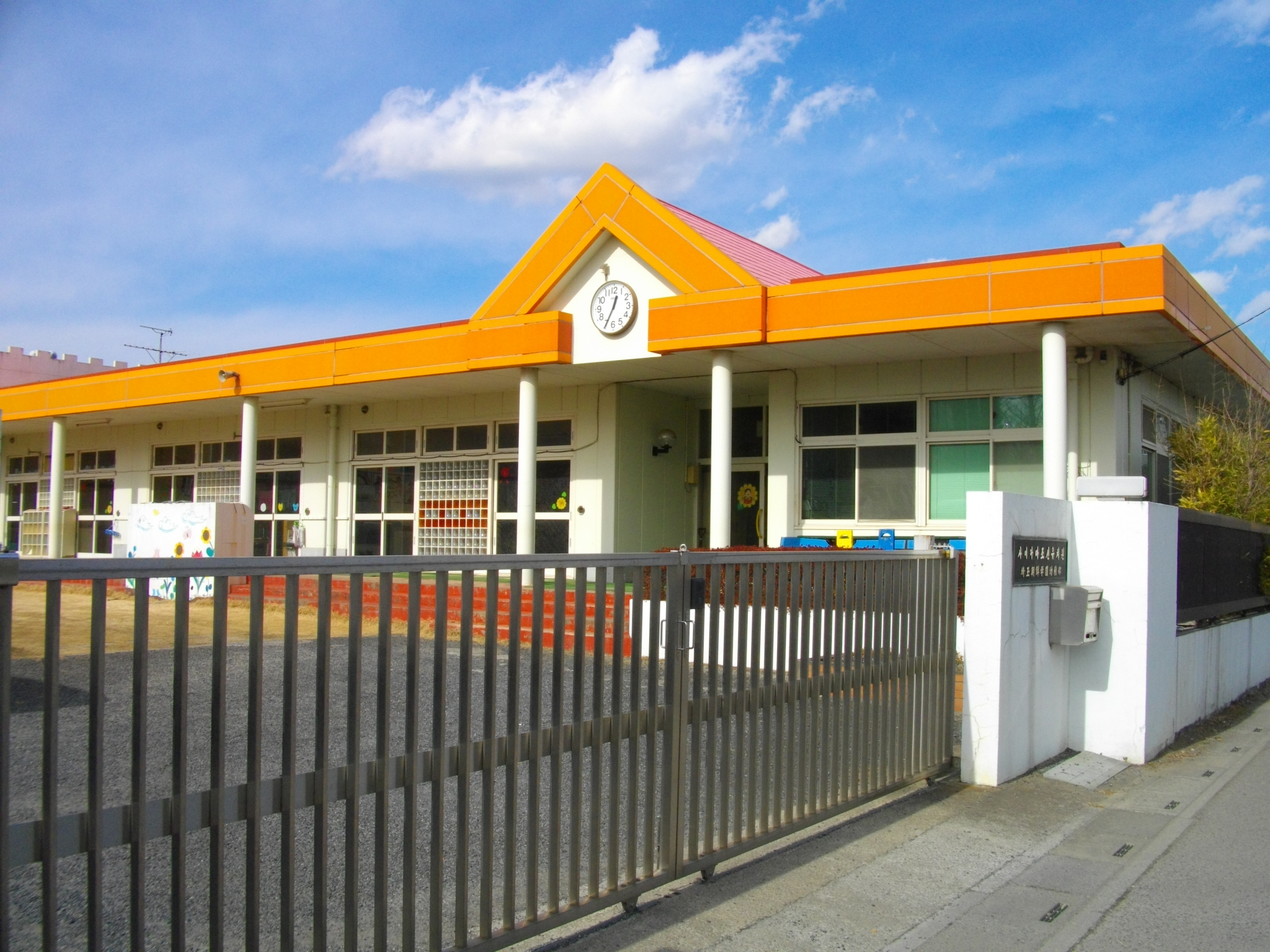 Saitama Korea Kindergarten